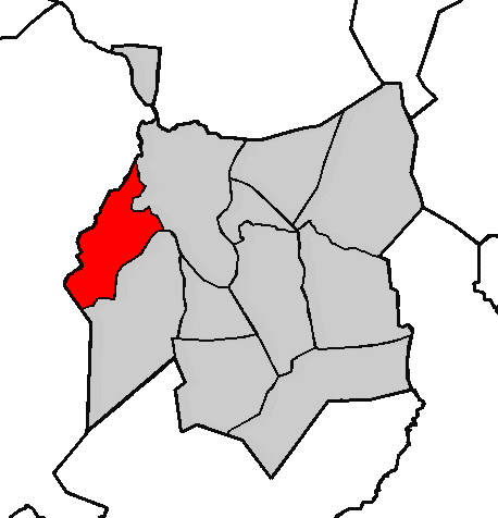 Location of the parish of Sigrás in the municipality of Cambre (Galicia, Spain)